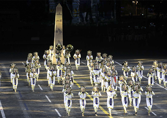 FESTIVAL SPASS TOWER 2019.